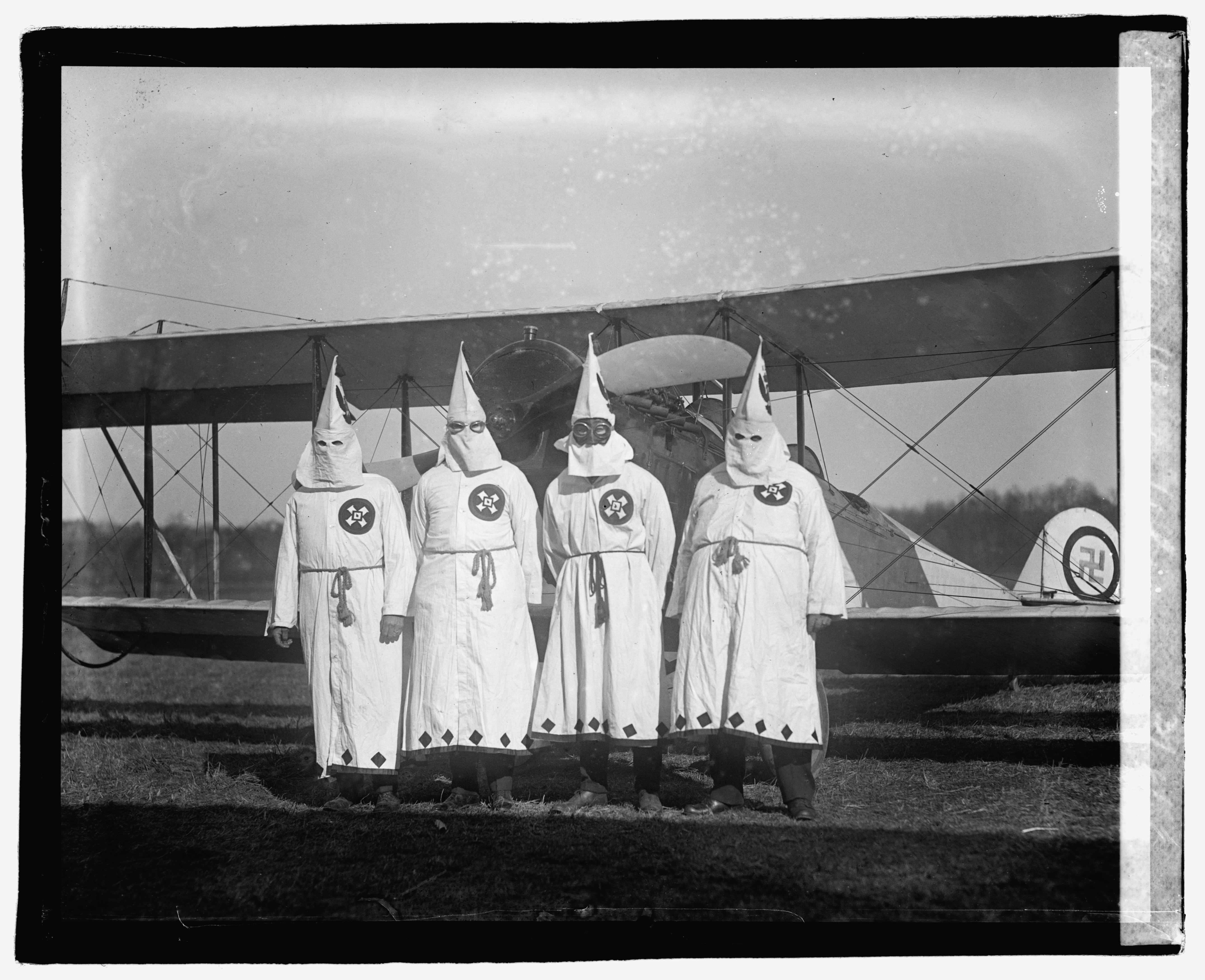 Title: Klu Klux Klan, 3/18/22 Abstract/medium: National Photo Company Collection (Library of Congress) Physical description: 1 negative